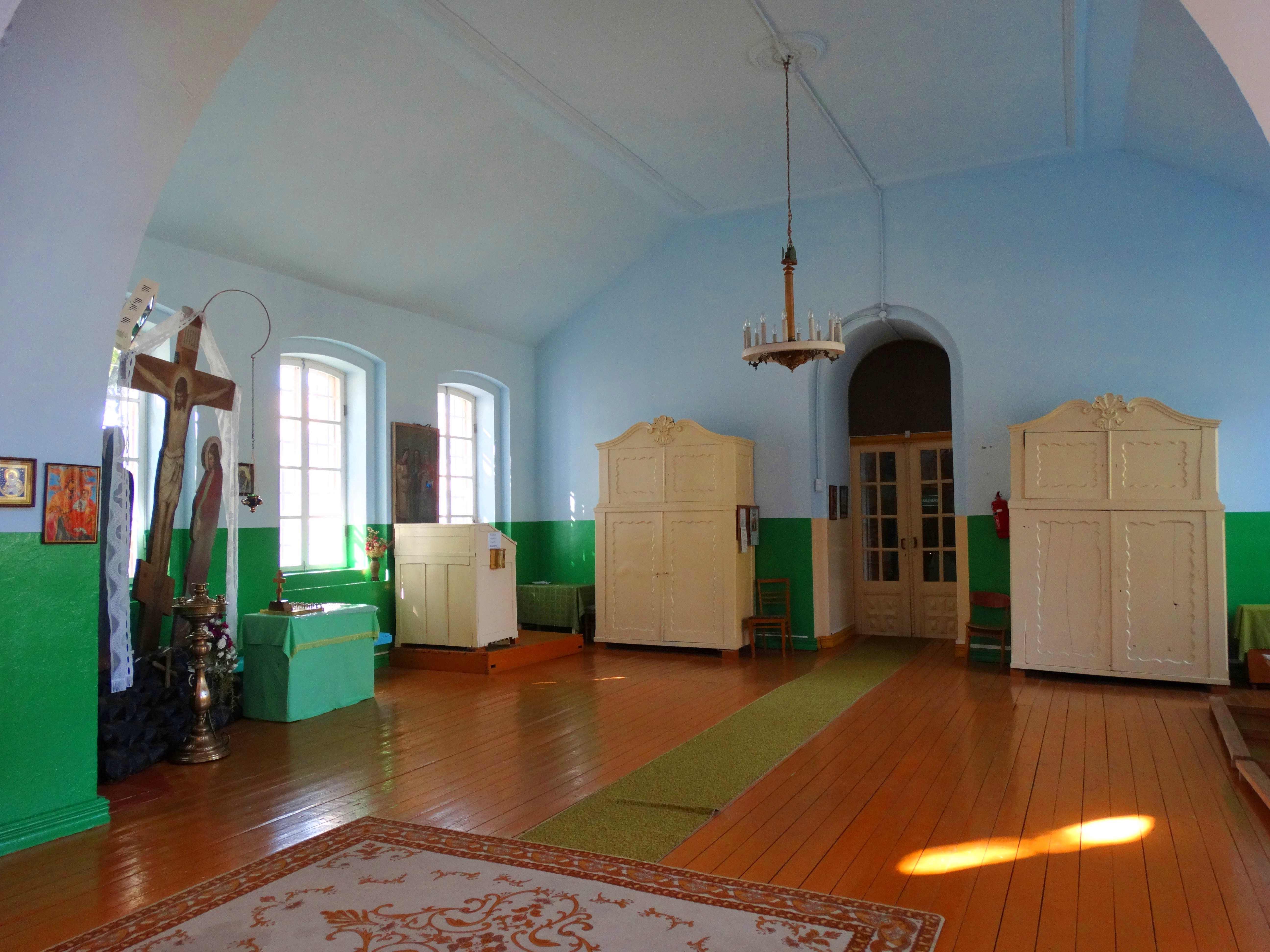 Interior, Orthodox Church, Raseiniai, Lithuania